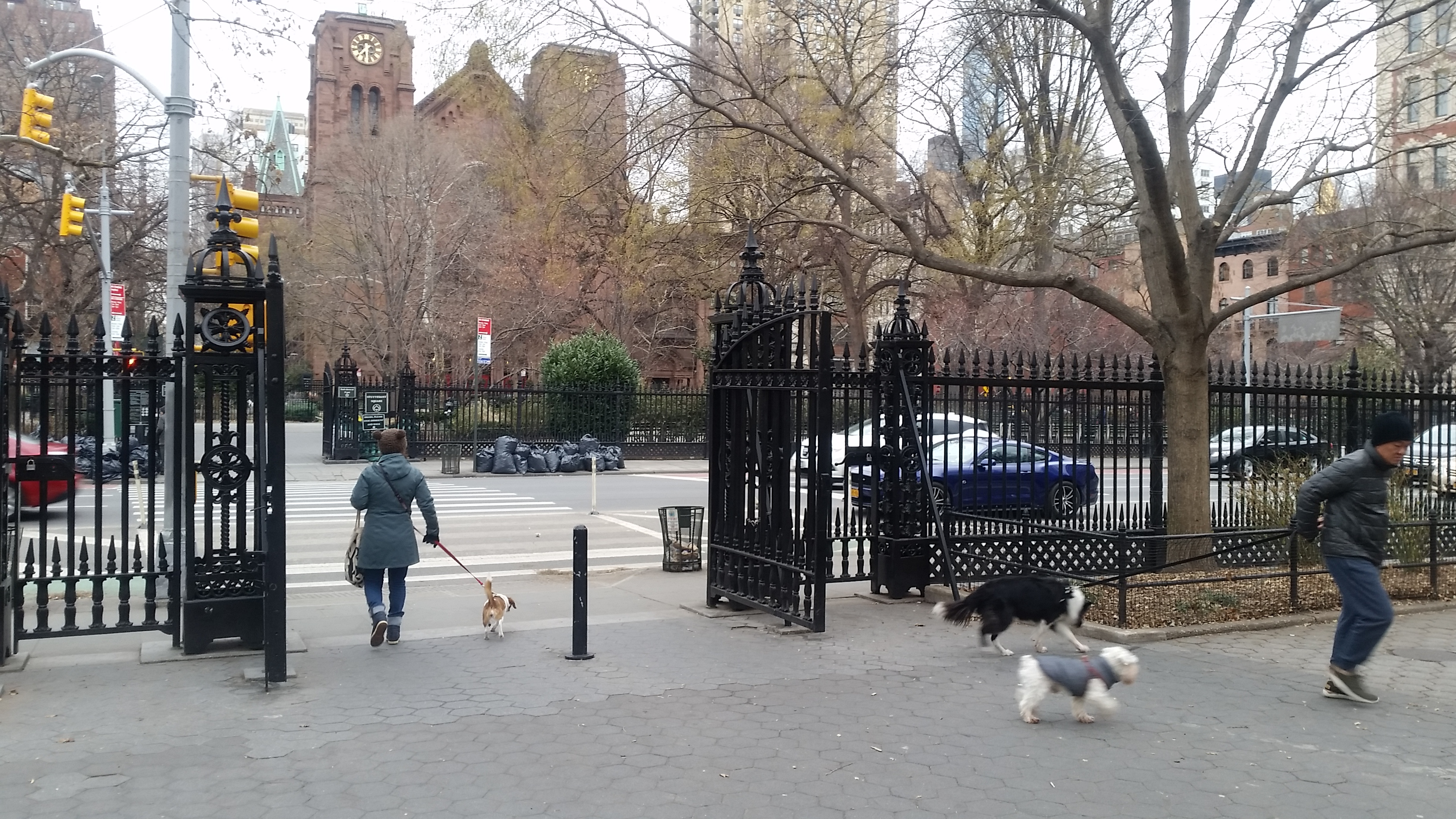 Fence at Manhattan's Stuyvesant Square with St. George's Episcopal Church in the background